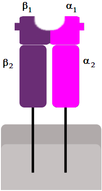 Summary Schematic representation of MHC class II molecule, consisting of two α-domains and two β-domains. The peptide-binding groove is situated between domains α1 and β1. Licensing